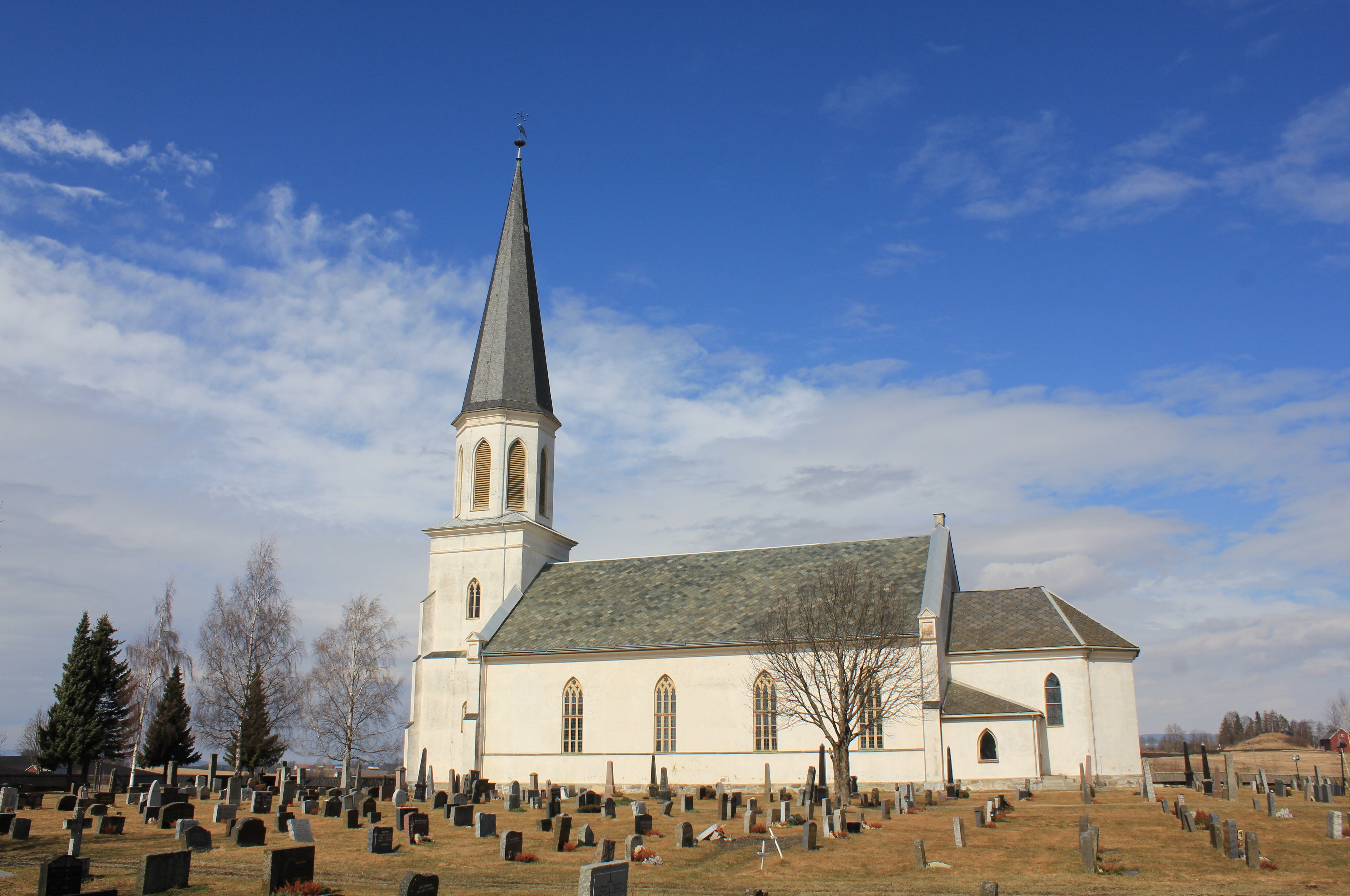 Romedal church at Hedmark, Norway.